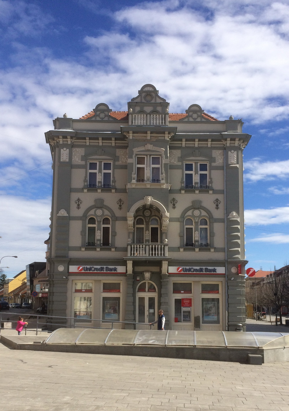 Bukovac Palace